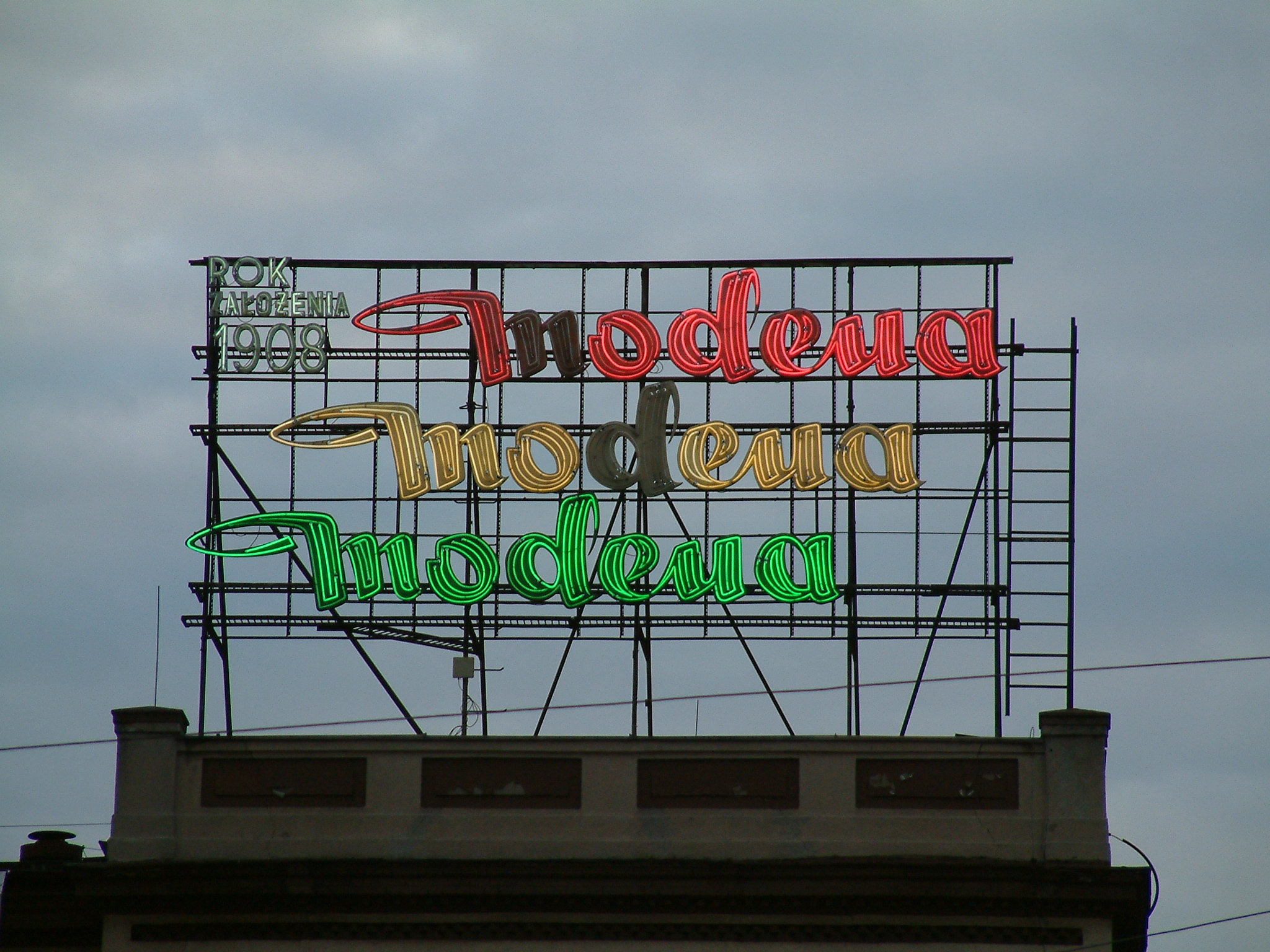 Neon sign of Modena Factory in Poznań